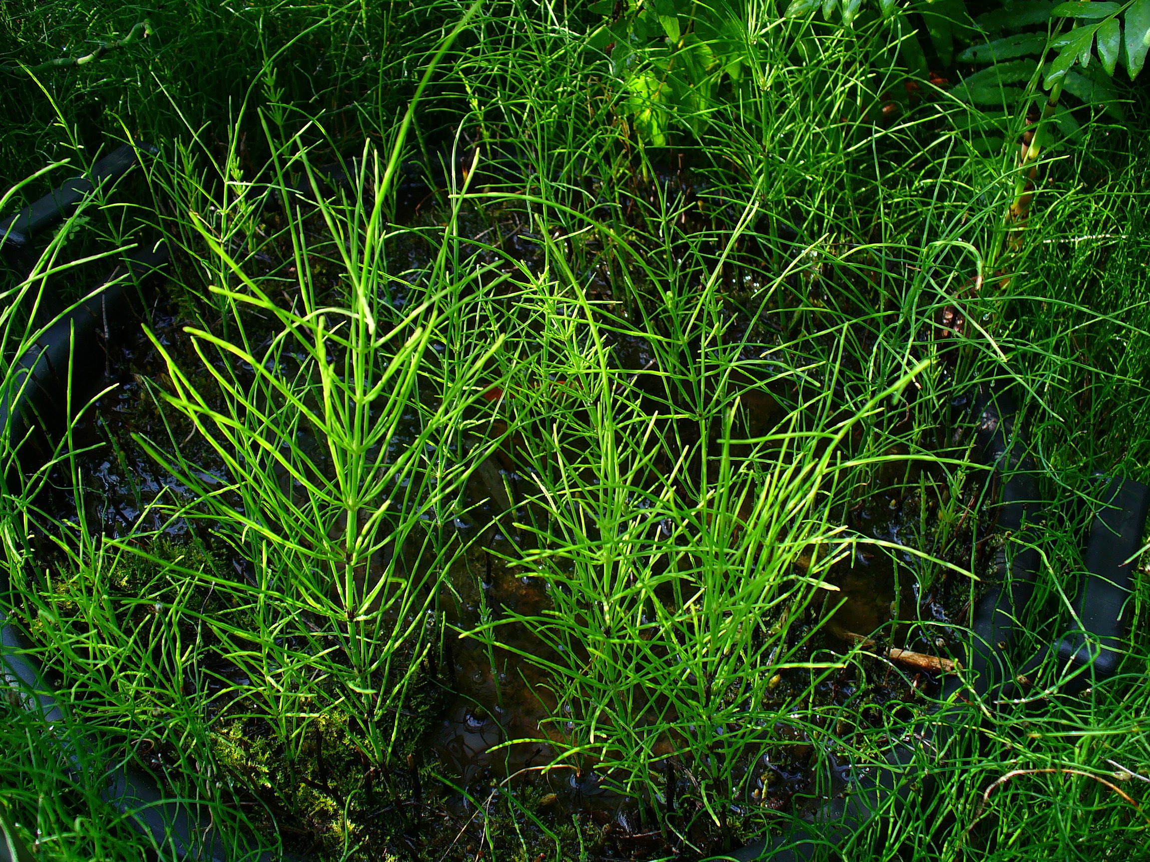 Equisetum arvense, Equisetaceae, Field Horsetail, Common Horsetail, habitus; Botanical Garden KIT, Karlsruhe, Germany. The fresh haulm is used in homeopathy as remedy: Equisetum arvense (Equis-a.)